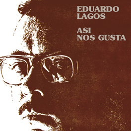 Eduardo Lagos. Folk musician. Argentina. Cover of the album "Asi nos gusta" (1969).